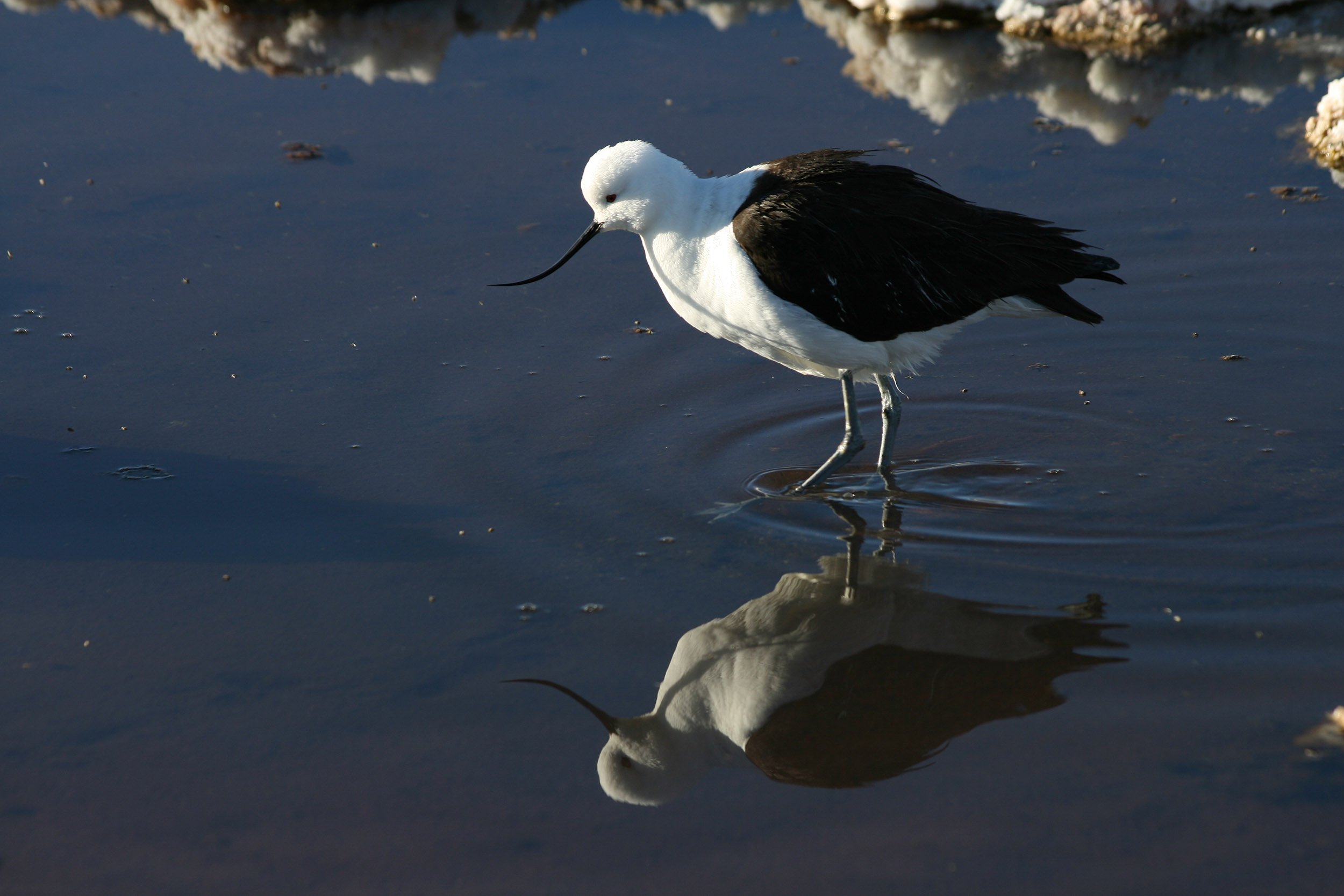 Andean avocet Recurvirostra andina at Laguna Chaxa, Región de Antofagasta, Chile